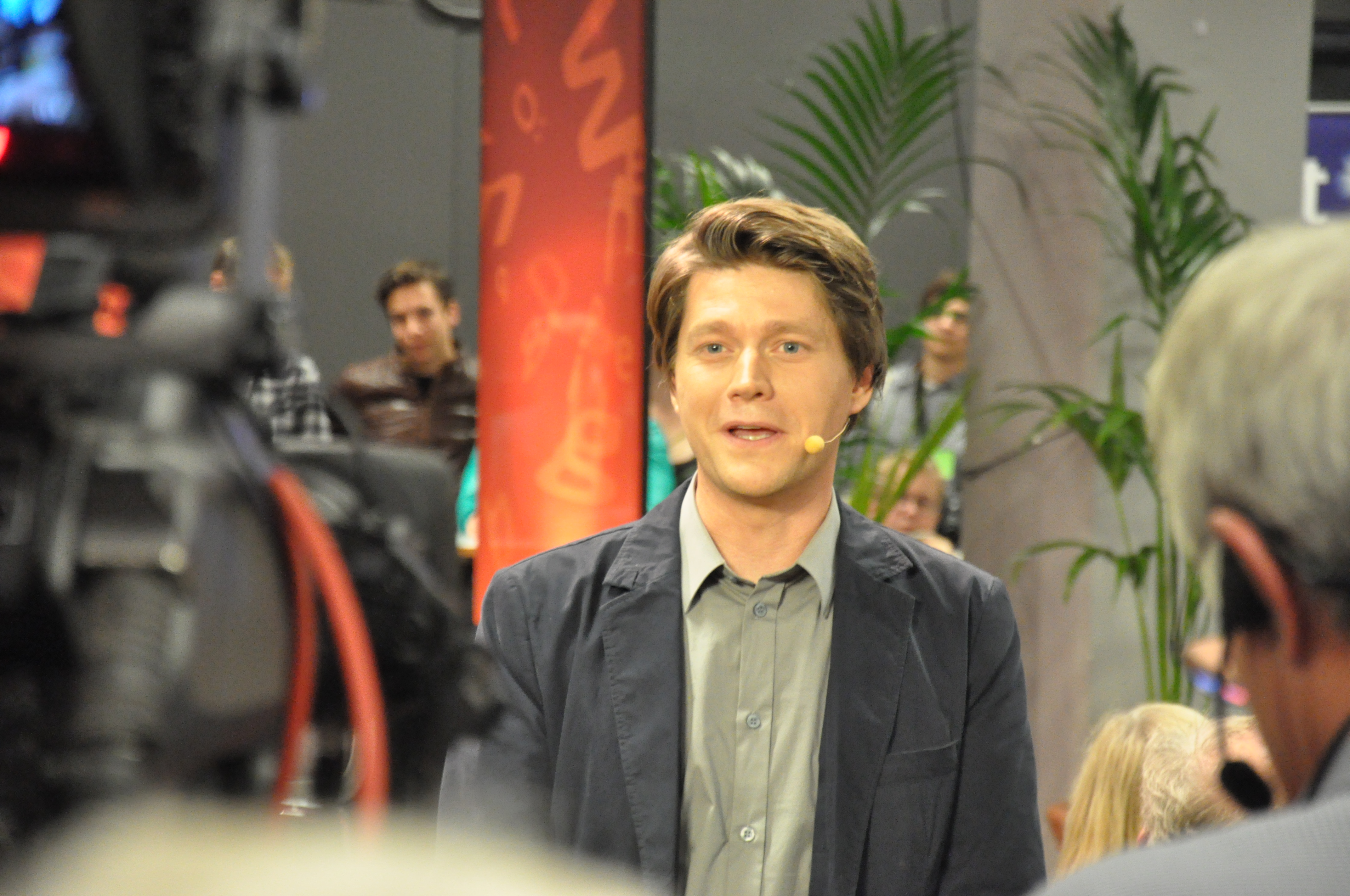 Live broadcast of literature show "Babel" with Daniel Sjölin at the 2011 Göteborg Book Fair.